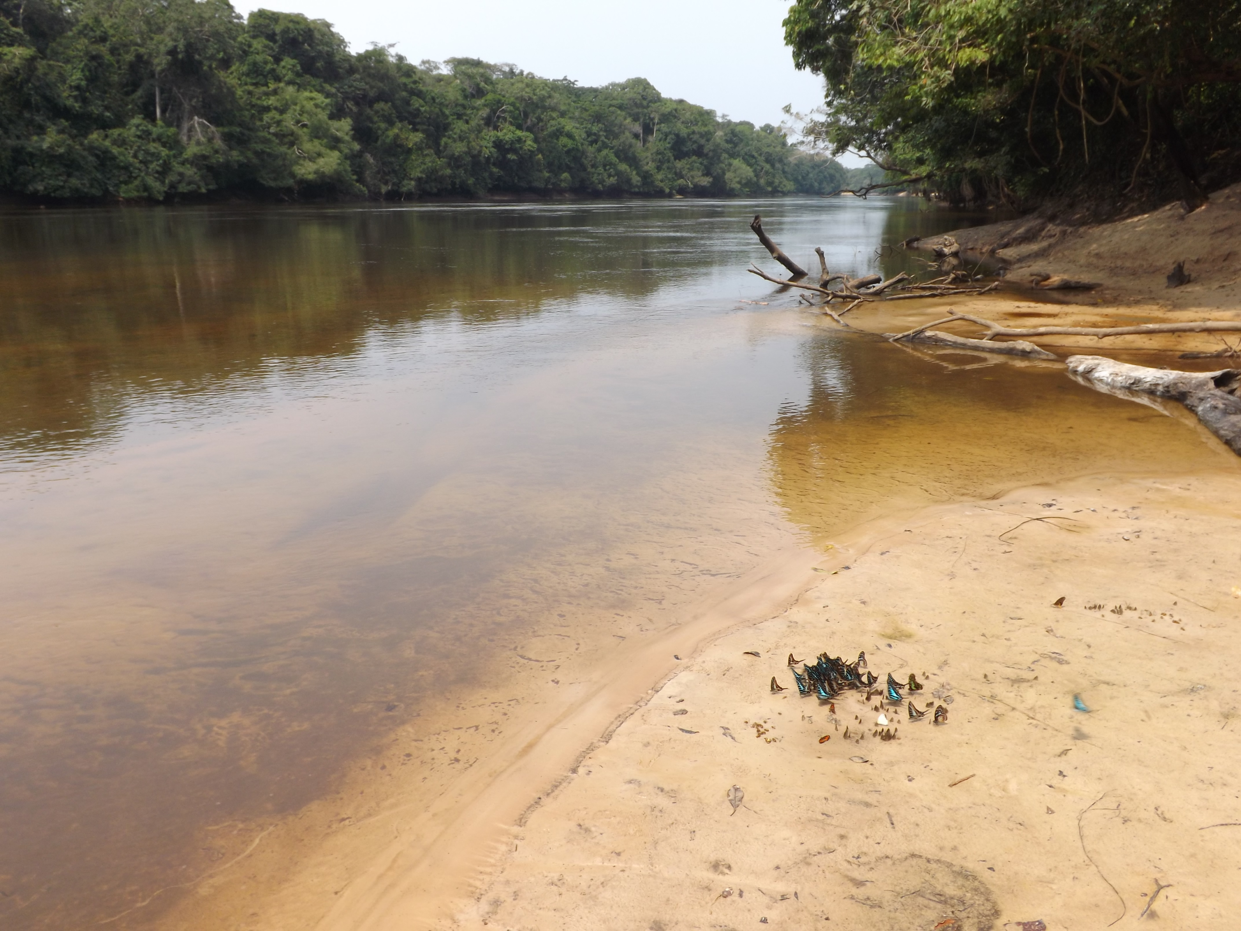 The bank of the Lomami River at Katopa Camp, Democratic Republic of the Congo, with swallowtails and other butterflies on the sand.